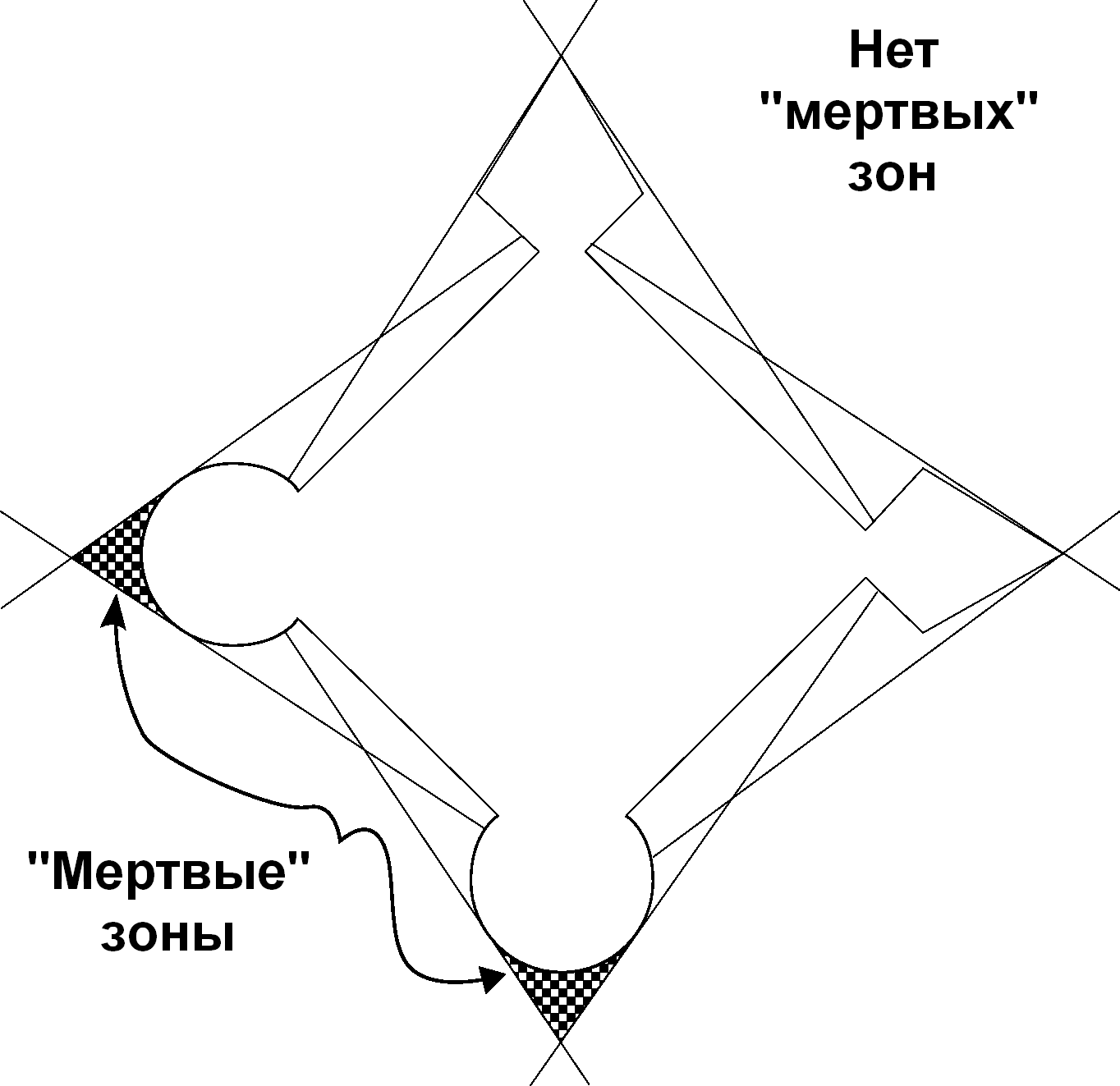 Line-of-fire shown for star forts and non-star forts, indicating the "dead" zones created by the latter. Inspired by figure of Lynn, John A. "The trace italienne and the Growth of Armies: The French Case." In "The Military Revolution Debate" ISBN 0-8133-2054-2